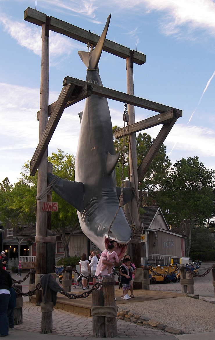 The entrance to the Jaws attraction at Universal Studios Florida in Orlando, Florida, United States.